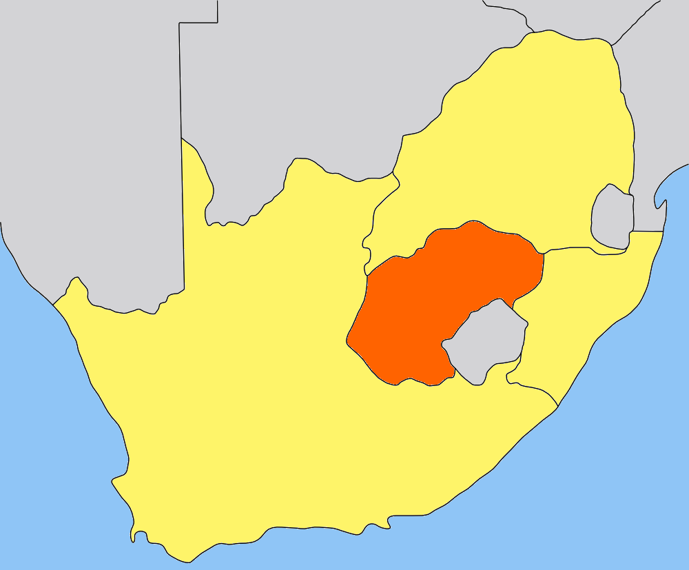 Map of the Orange Free State in South Africa. Traced by hand in Inkscape from older version of this image, recoloured in the GIMP.